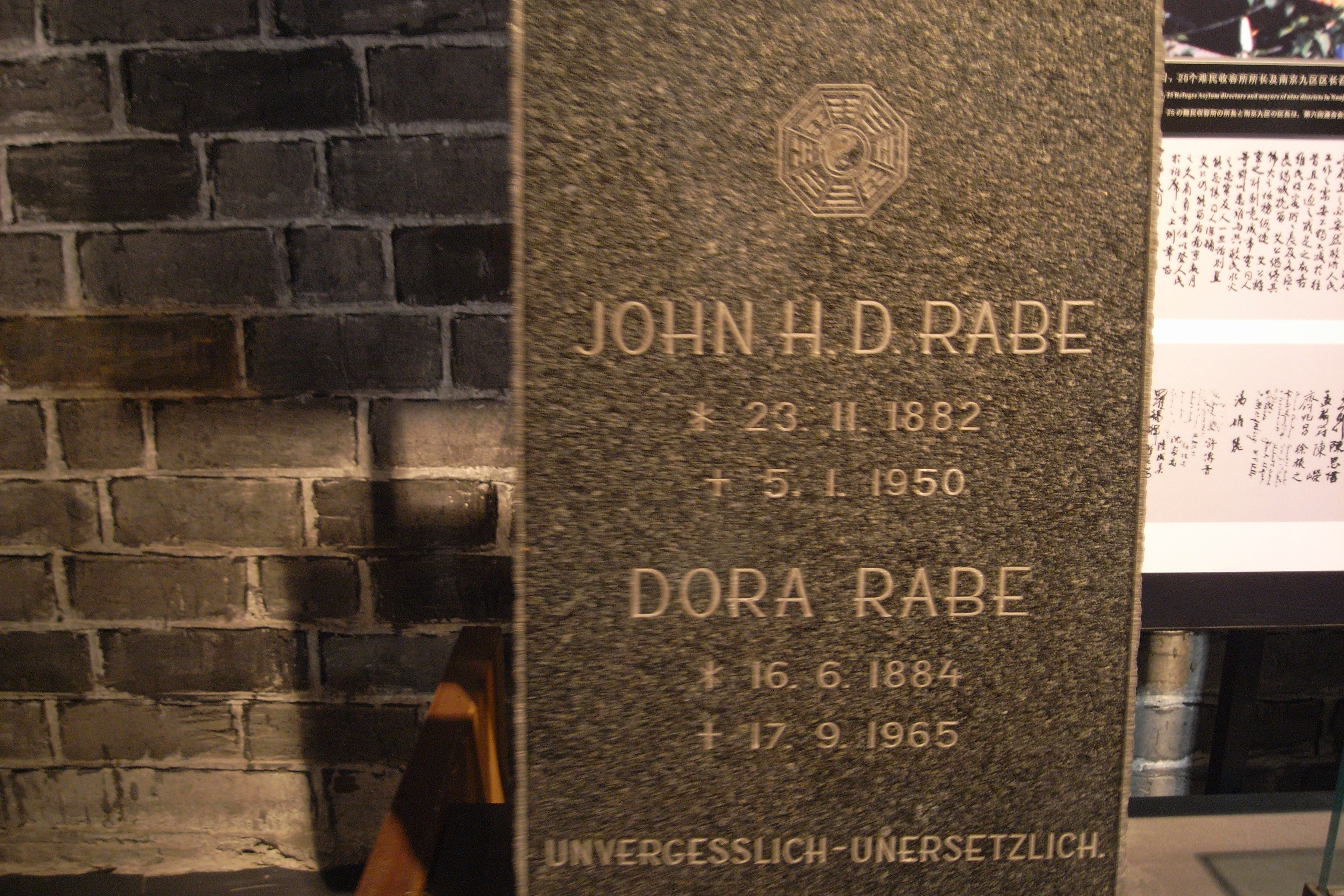 John H. D. Rabe tombstone in Nanjing